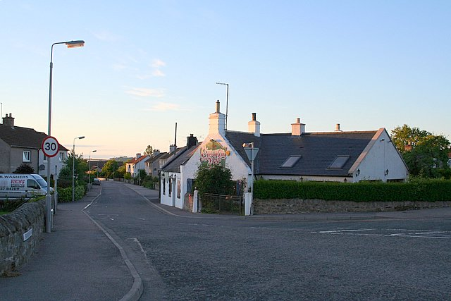 The Crooked Inn, Alves, Morayshire. Brilliant meals; good food 'n drink!